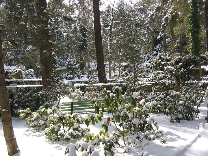 Cemetery „Waldfriedhof Dahlem“. Berlin-Zehlendorf, Hüttenweg 47.